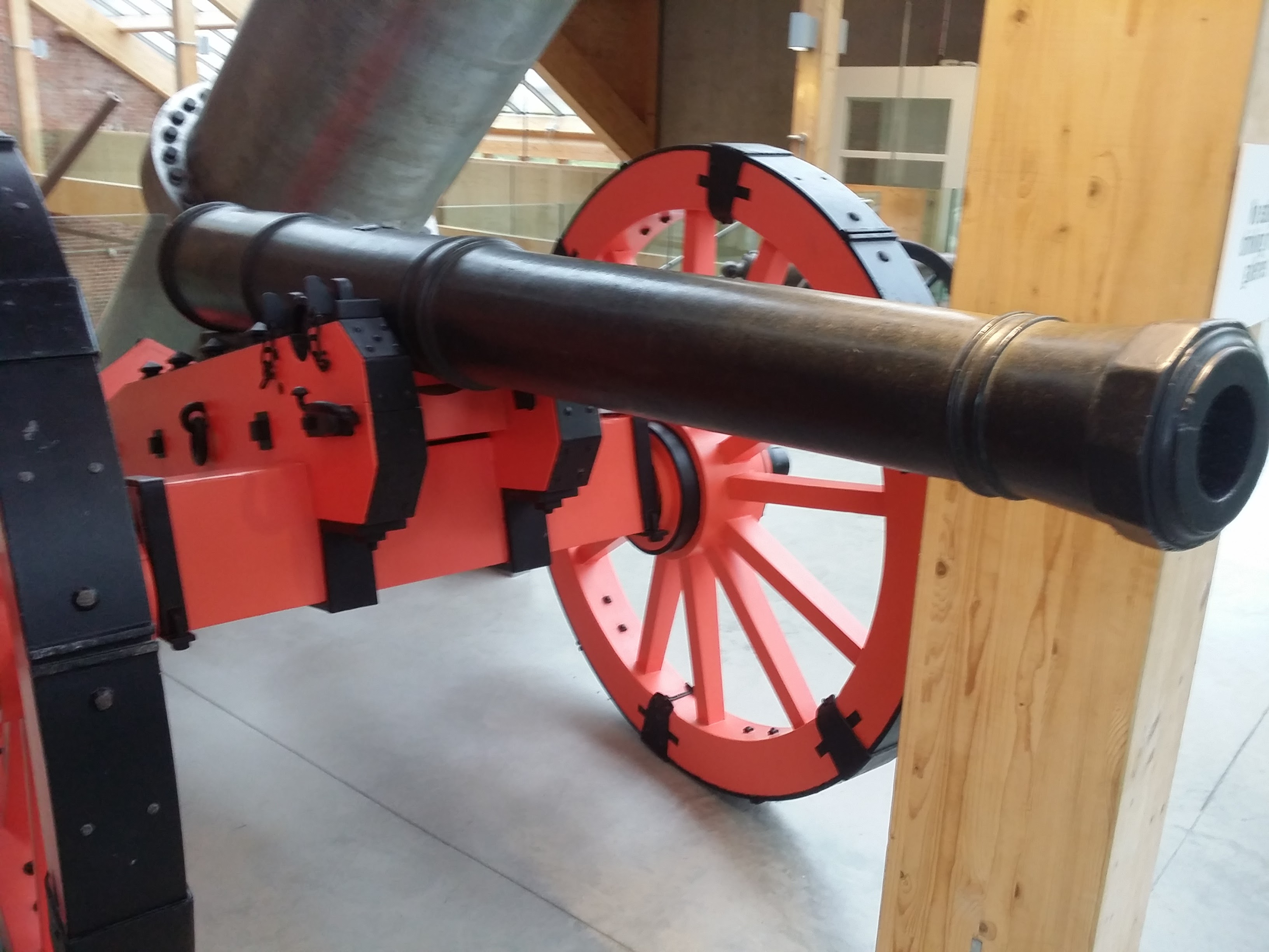 English Gun made in London in 1601, captured by Chinese from Vietnamese in 1805 and re-captured by British in 1840.